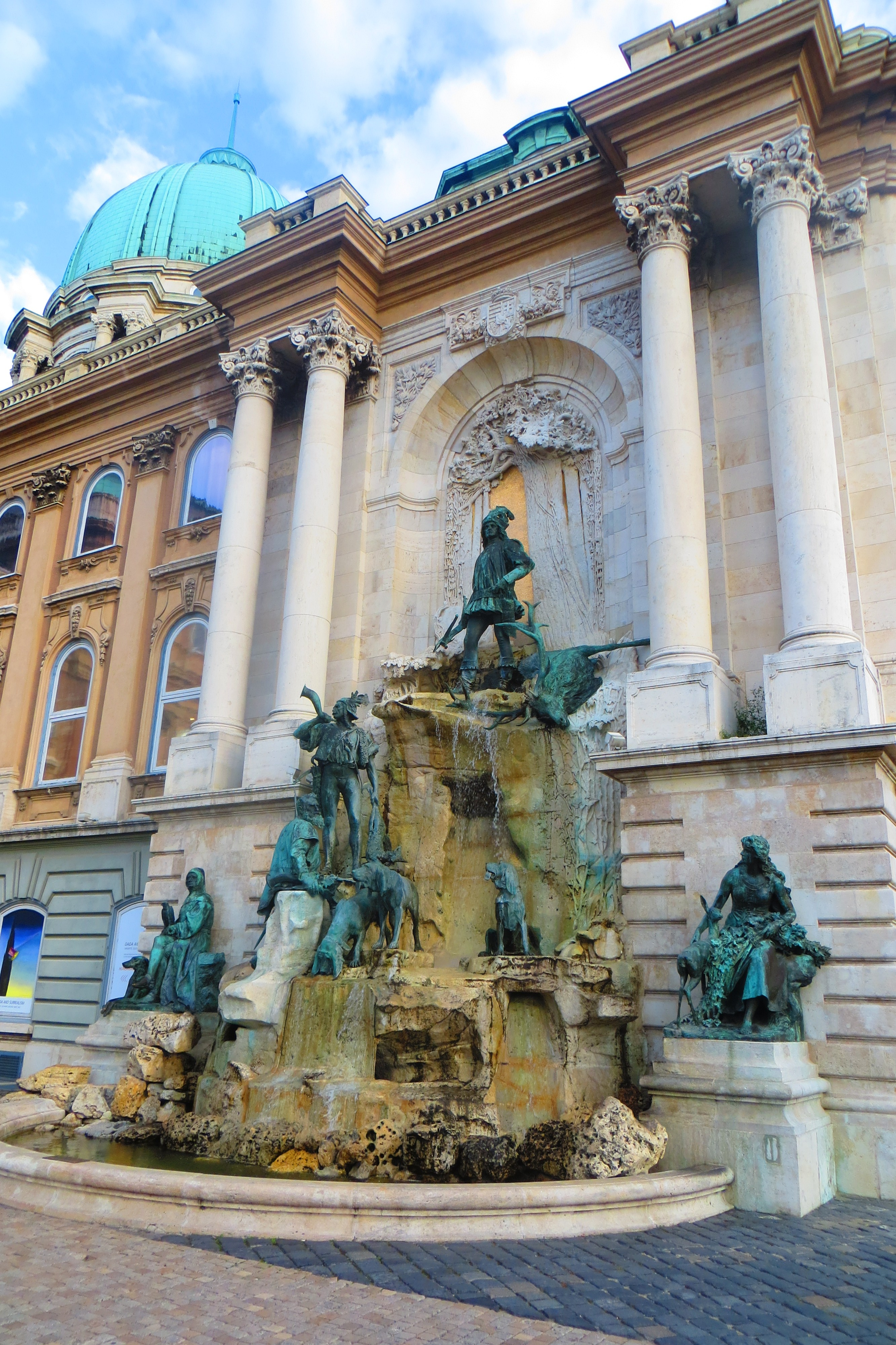 Budapest, Castle Hill, 1014 Hungary